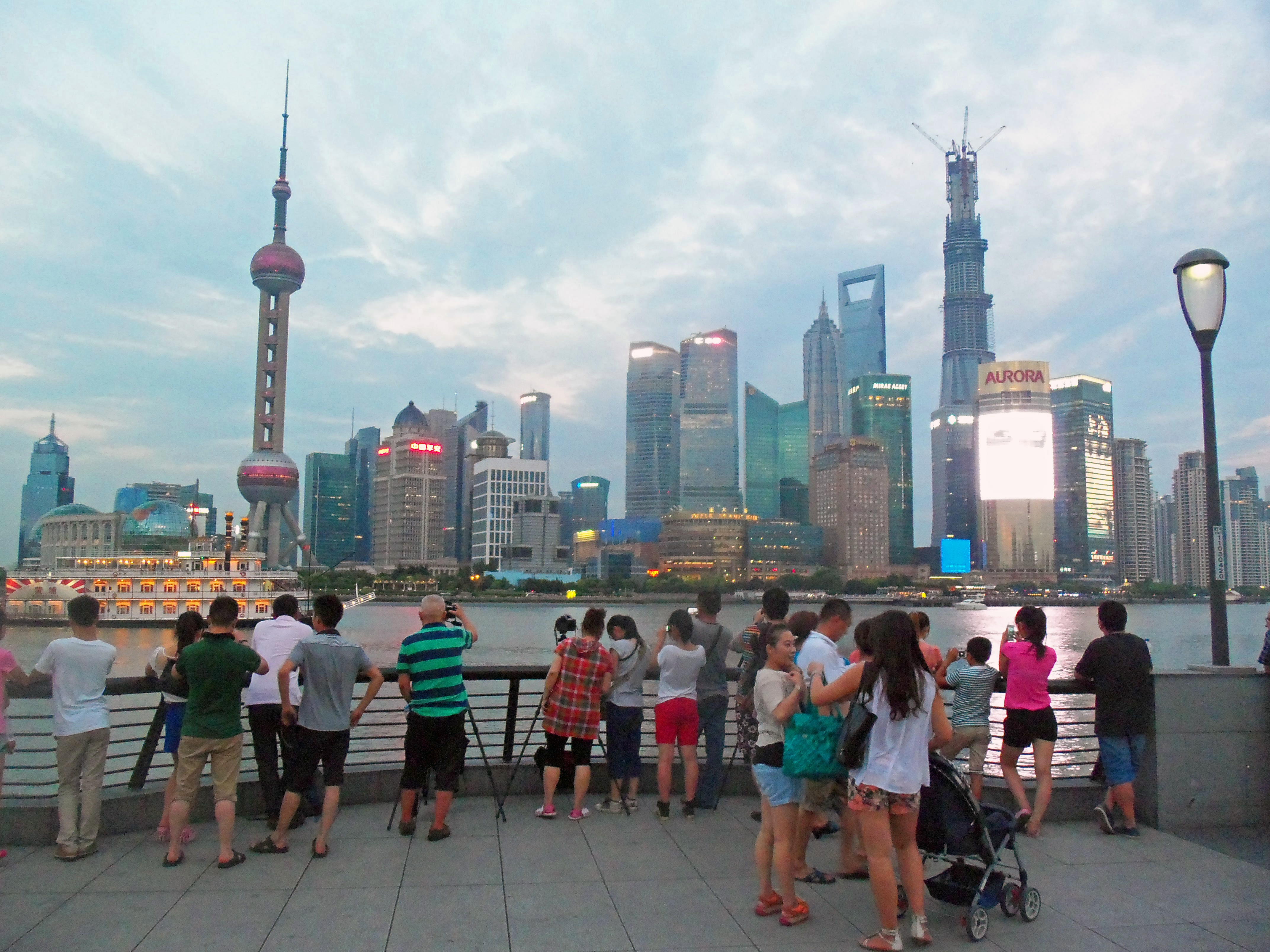 Tourists, predominantly Chinese, photograph the Lujiazui skyline in Shanghai from the Bund.